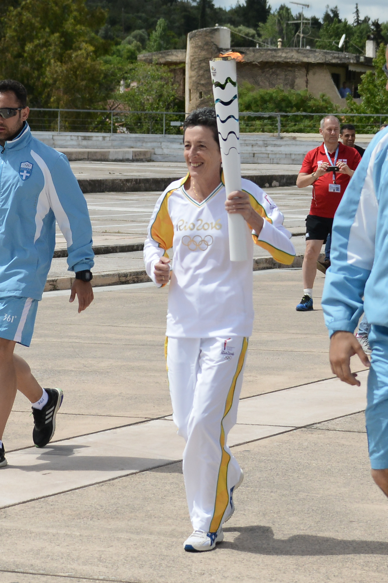 Marathon, Greece; 29th April 2016: Save the Dream Ambassador Rosa Mota, 1988 Olympic champion and winner of the first ever Women’s Marathon in Athens in 1982, returned to the birthplace of the modern Olympic Games and location of her first historic marathon victory, to carry the Olympic flame as it makes its way to Rio de Janeiro, Brazil for the start of the XXXI Olympiad.